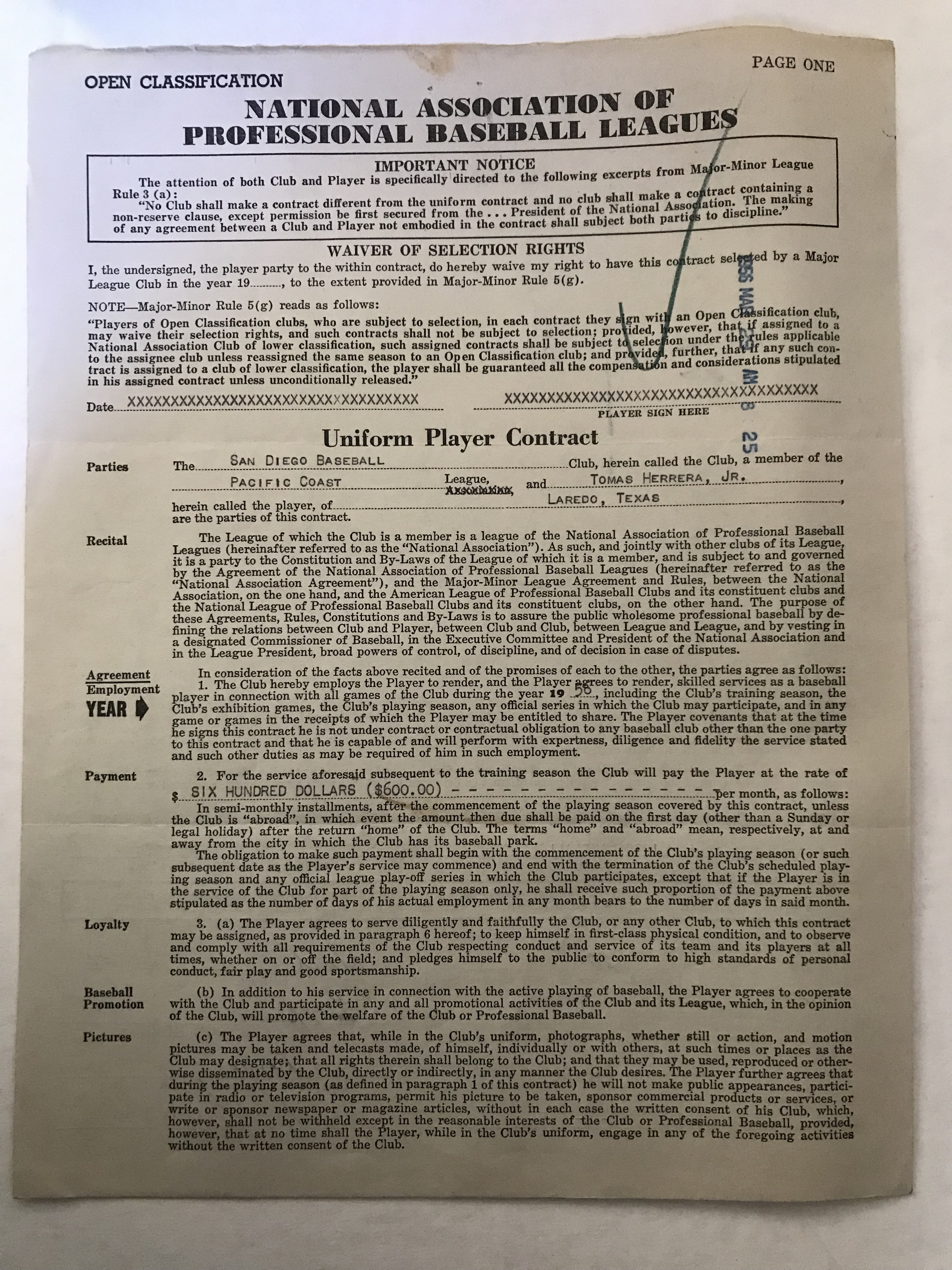 Minor League Contract with San Diego.